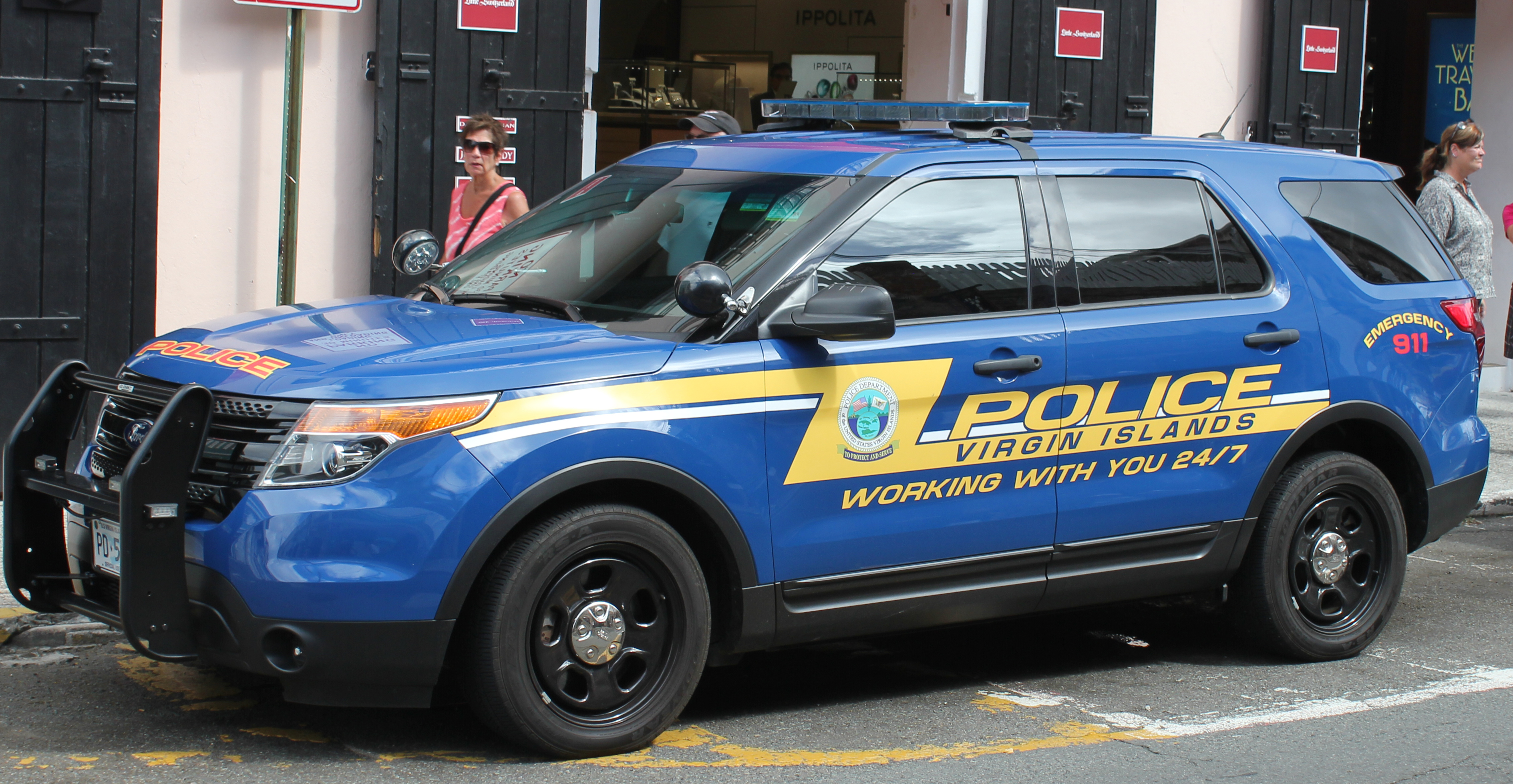 Going after all the thugs there. --Jeffrey Beall